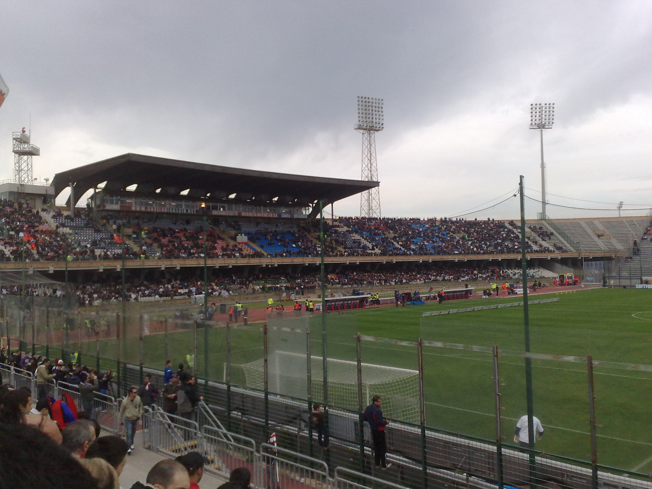 Main Tribune Sant'Elia Stadium in Cagliari (2009).